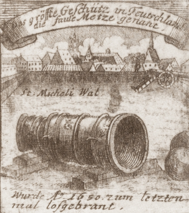 Faule Metze ( Metze, old term for a whore)("Lazy Mette"), a medieval supergun from 1411 from Braunschweig, Germany